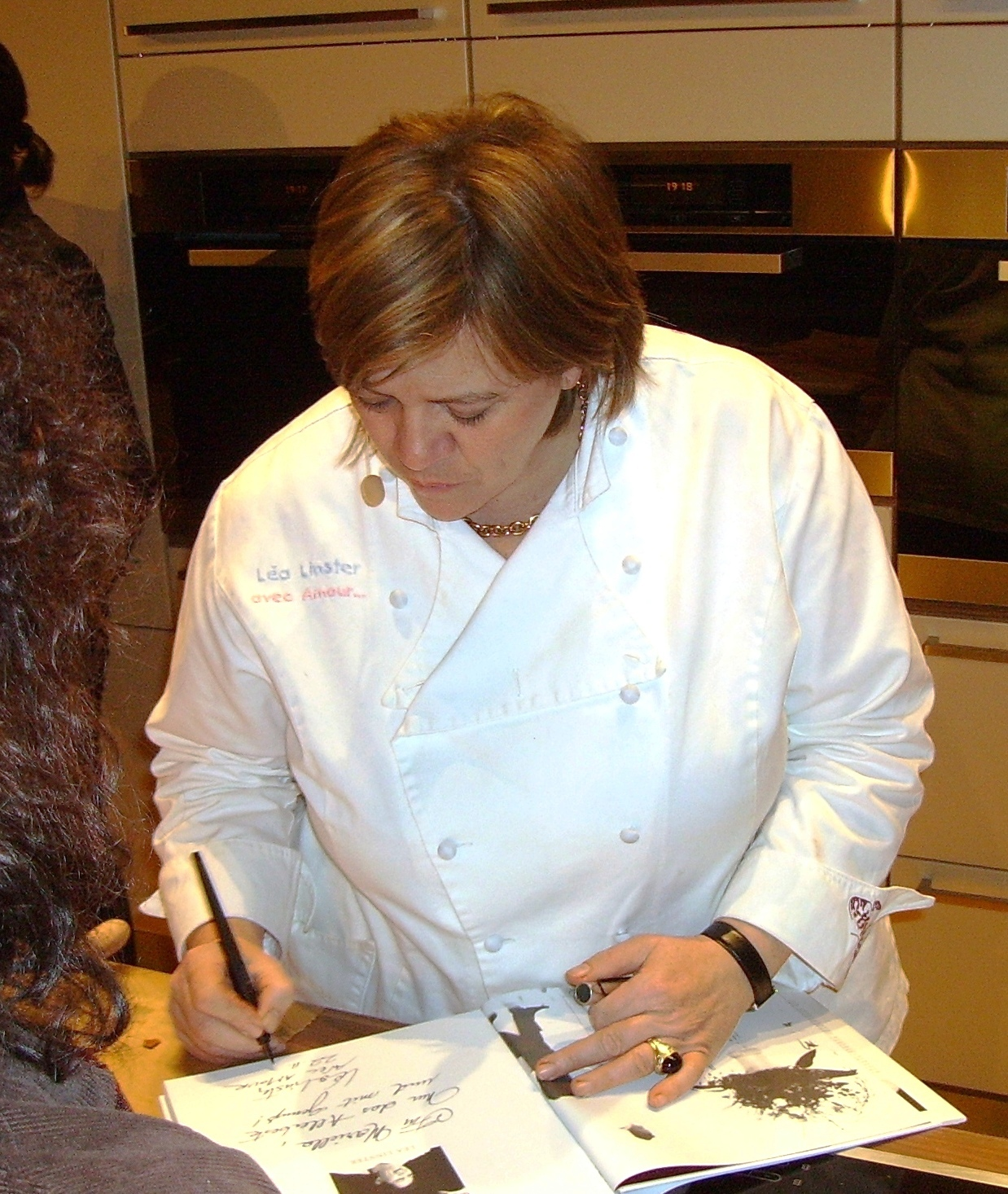 Lea Linster signs one of her cookbooks at the trade fair "Lust auf Genuß" in Stuttgart/Germany